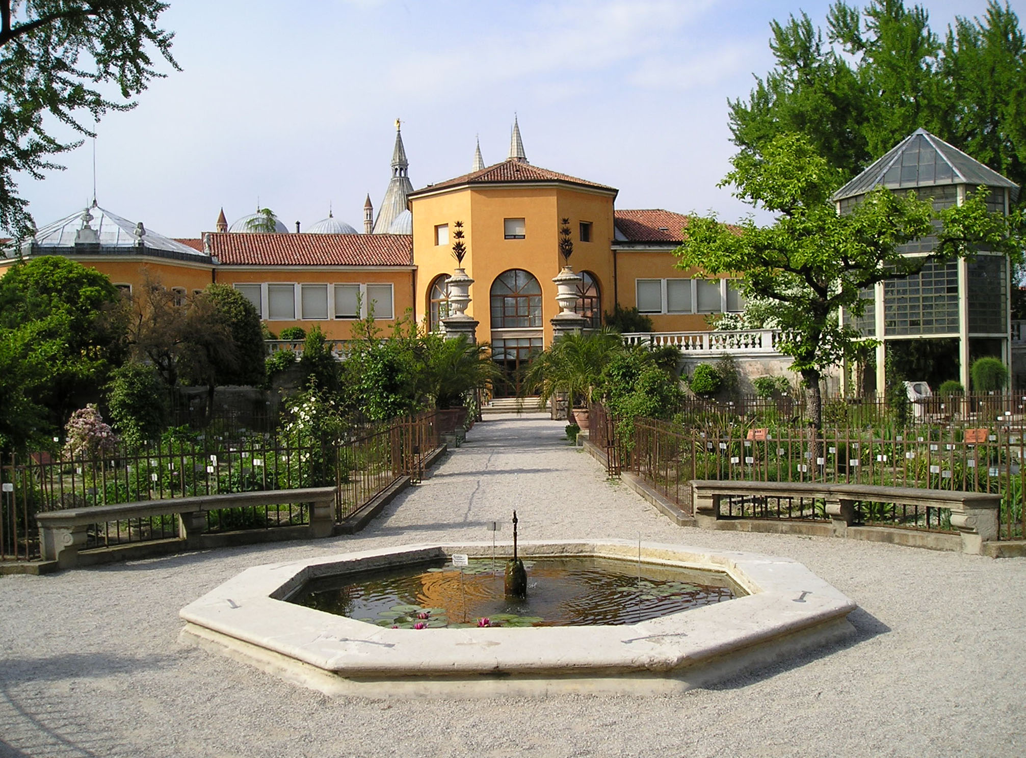 L'Orto Botanico di Padova.